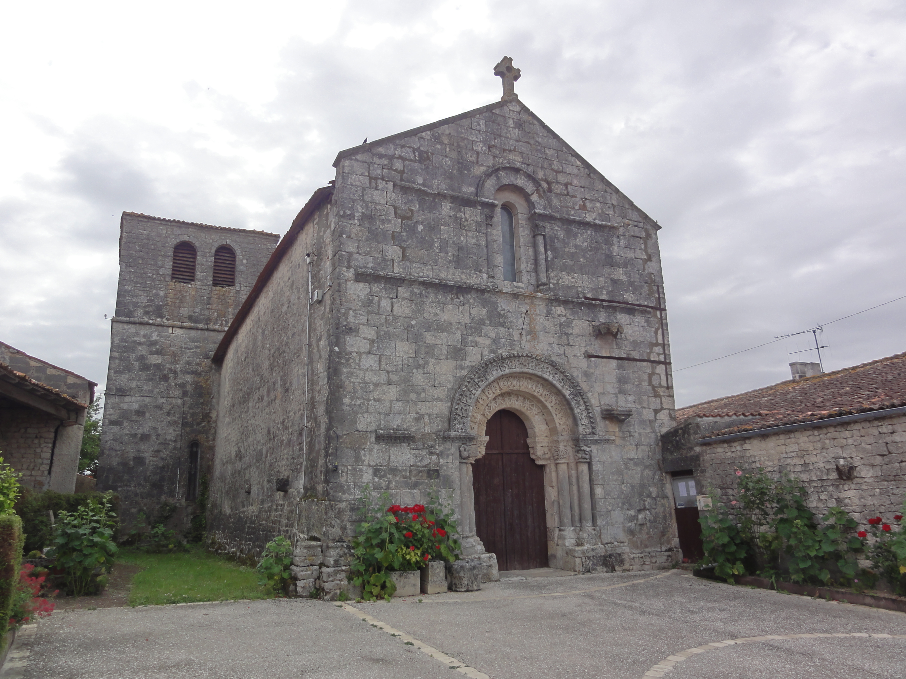 Les églises d'Argenteuil (Charente-Maritime) église, extérieur .